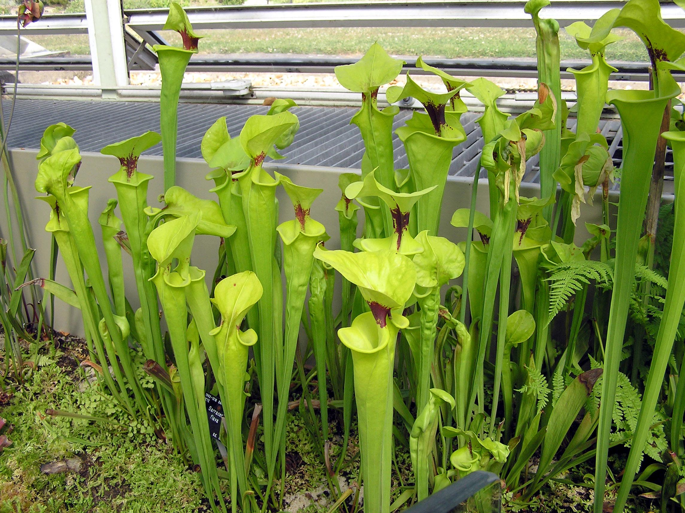 Pitcher plant Sarracenia flava at Kew Gardens, London, England. Photographed by Adrian Pingstone in June 2005 and released to the public domain.